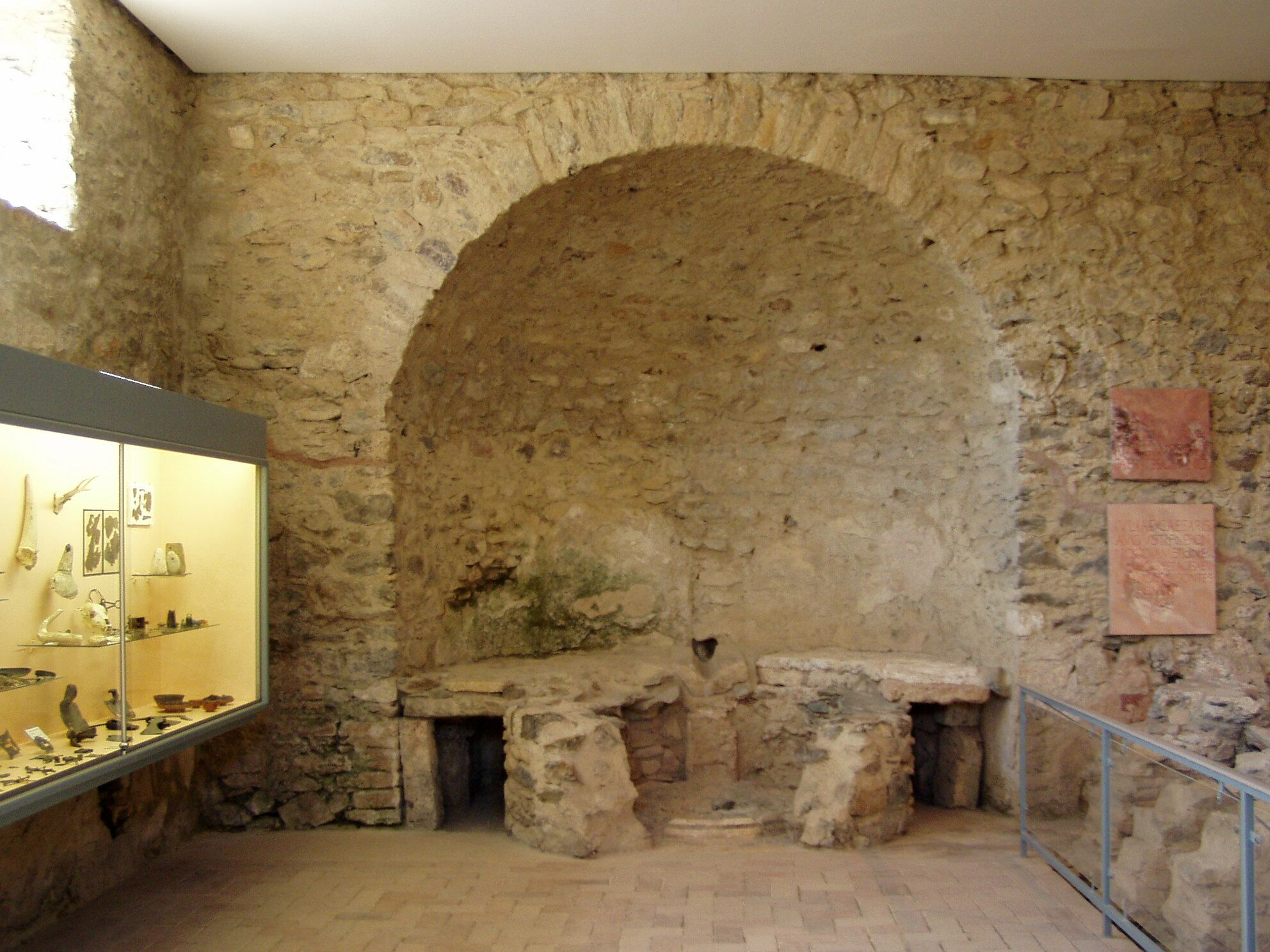 Stadt am Magdalensberg/City on the Magdalensberg